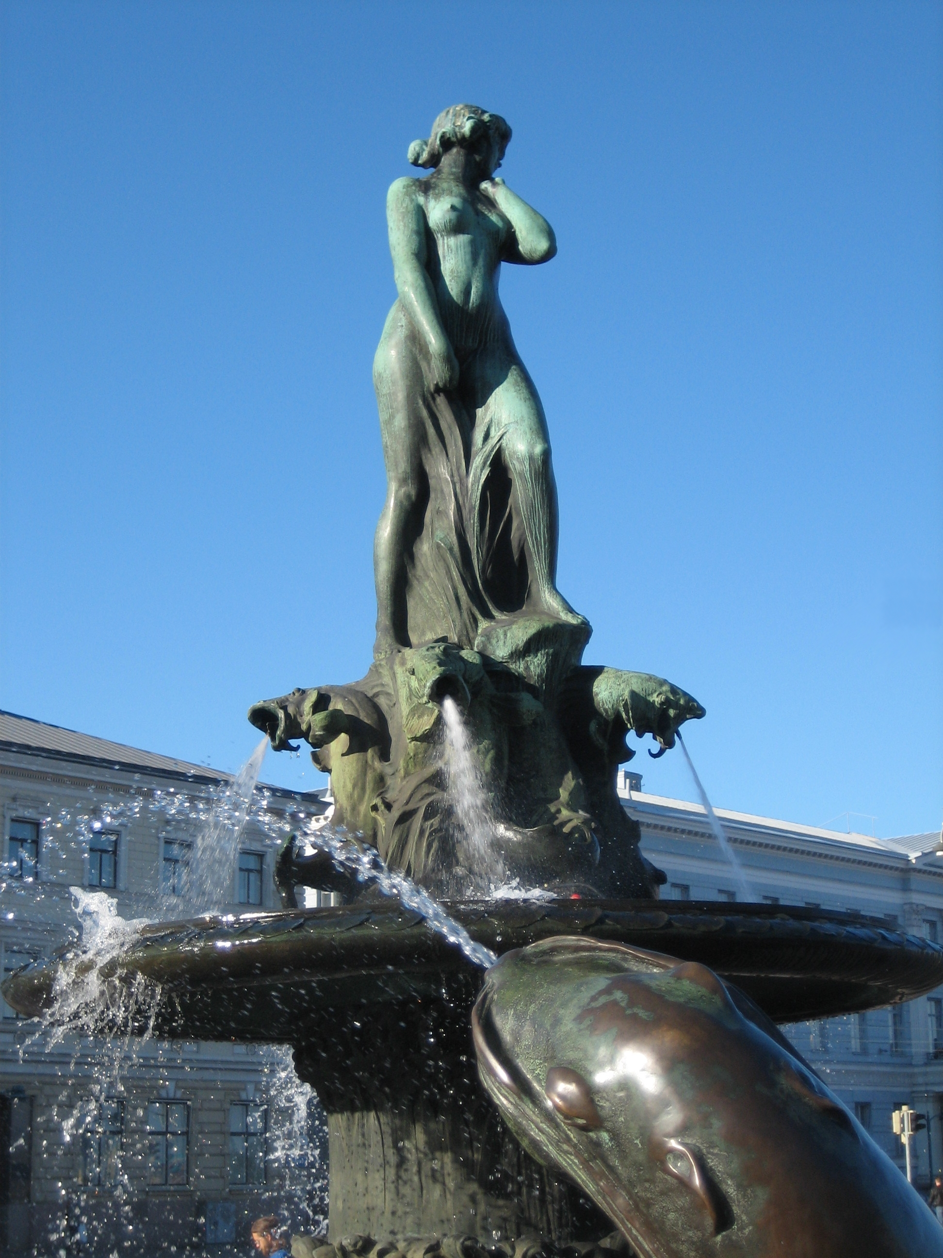 Havis Amanda is one of the most central statues in Helsinki, Finland. Sculptor: Ville Vallgren (1855–1940)